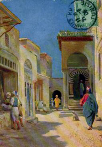 Postcard of the Slimania madrasa (18th century) in the medina of Tunis (Tunisia)